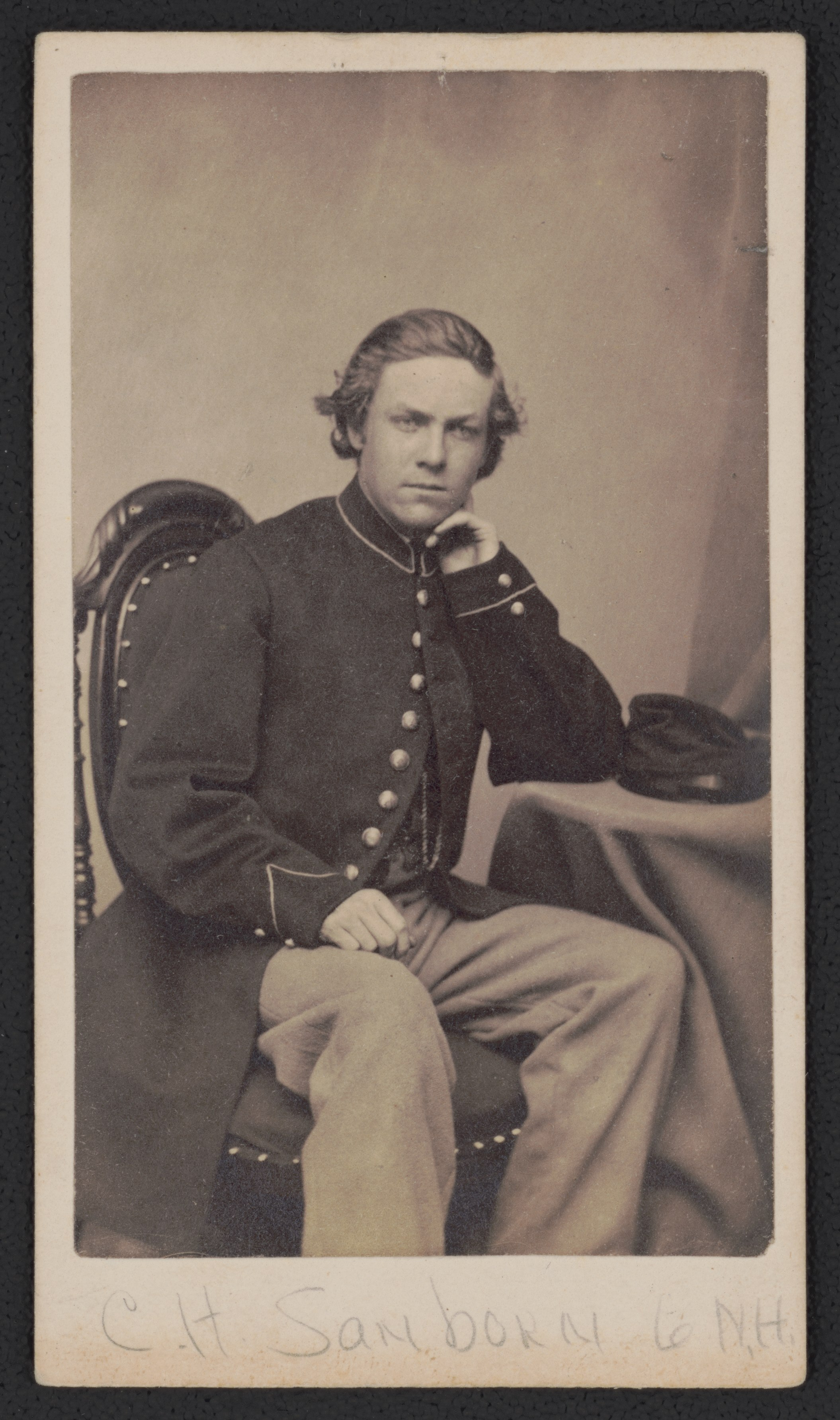 Title: Private Charles H. Sanborn of Co. A, 6th New Hampshire Infantry Regiment in uniform Abstract/medium: 1 photograph : albumen print on card mount ; mount 11 x 7 cm (carte de visite format)